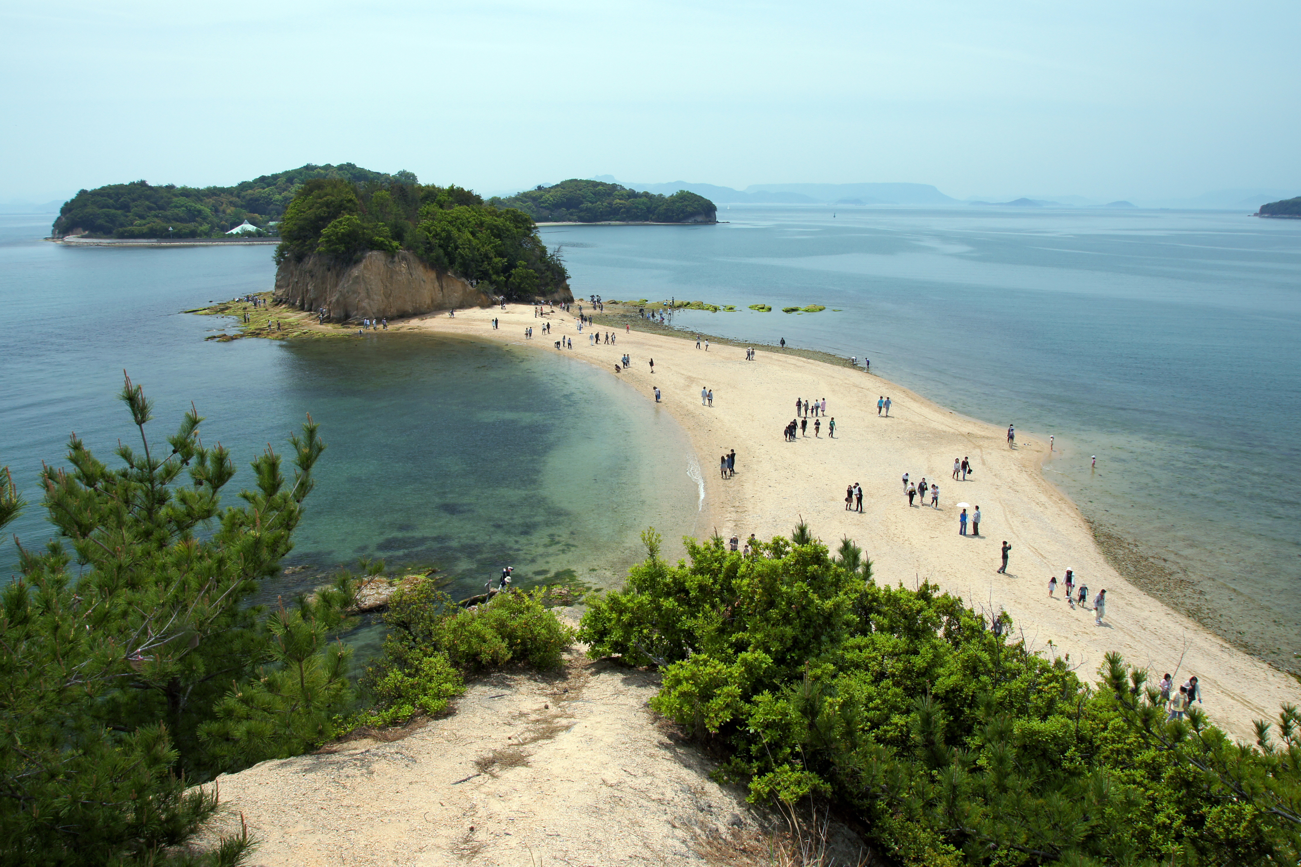 The Angel Road of Shōdo Island, Tonosho, Kagawa prefecture, Japan